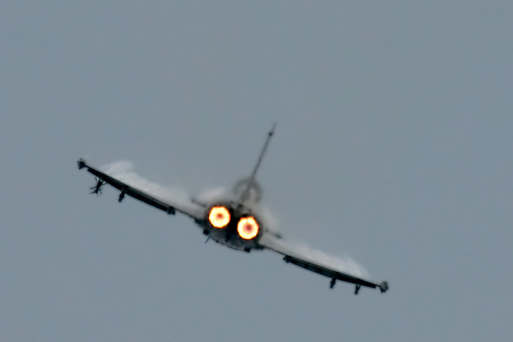 Eurofighter Typhoon from Italain Stormo 4 during an air show in Jesolo.